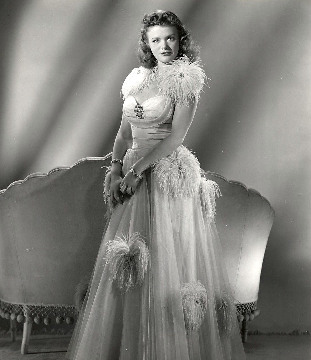 Simone Simon, promotional image for Cat People